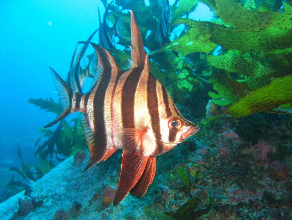 Portrait of an Old Wife (Enoplosus armatus). Blue Fish Point, Sydney, NSW